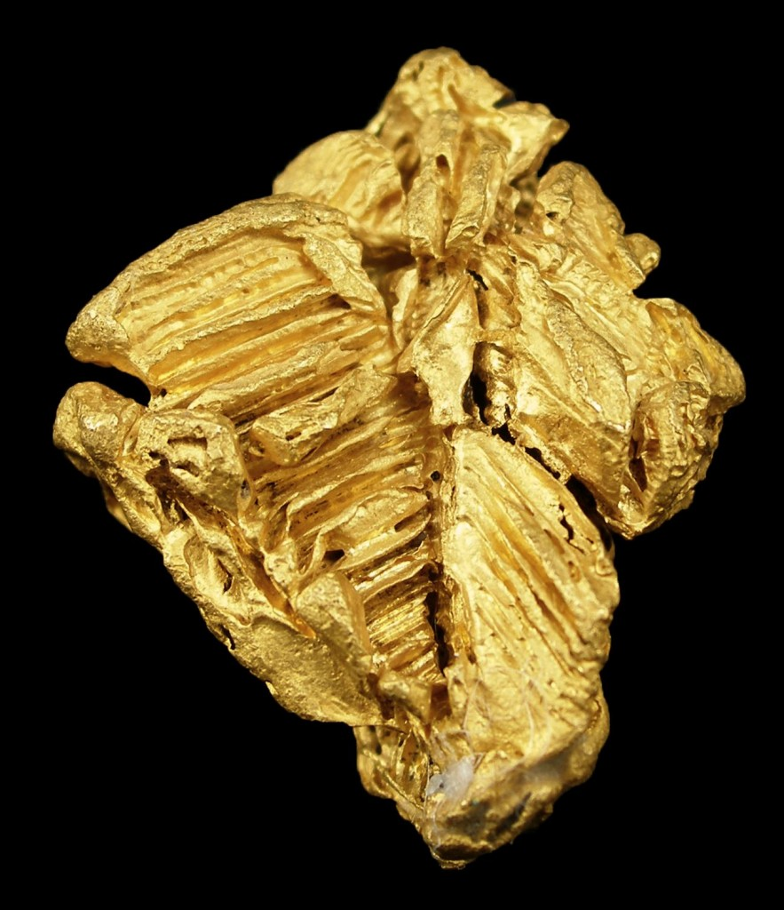 Gold Locality: Mina Zapata, Santa Elena de Uairen, Bolívar, Venezuela (Locality at ) Size: 3.4 x 2.6 x 1.8 cm. These sharp, complex gold crystals showing complex hoppered crystallization have become a modern classic that stand among the great gold specimens of all time. Very few specimens like these giants have been found at other locales (most notably Alta Floresta in Brazil a few years ago), not for the combination of size and sharpness both. This particular, large crystal is a superb example, complete-all-around, with particularly equant "fins" radiating out from the middle axis. It is a full miniature and until recently was in the noted collection of Gene Meieran of Phoenix, AZ. I obtained it from him in exchange in Tucson of 2007. Gene is himself a gold specialist, and so the fact that this was one of his several examples from here adds a bit of confidence to my estimation of its quality. I feel confident knowing that he had so much more opportunity, context, and knowledge base than I, as a serious gold collector, when he picked this specimen. He was able to examine these and purchase several of the finest when they were coming out in the mid 1990s (mostly), in part through his friend, dealer Wayne Thompson. This particular specimen was long in the Meieran collection and in fact was exhibited in a well-known combination exhibition of native elements (gold, silver, platinum, copper) that was on view at the Tucson show some years ago.